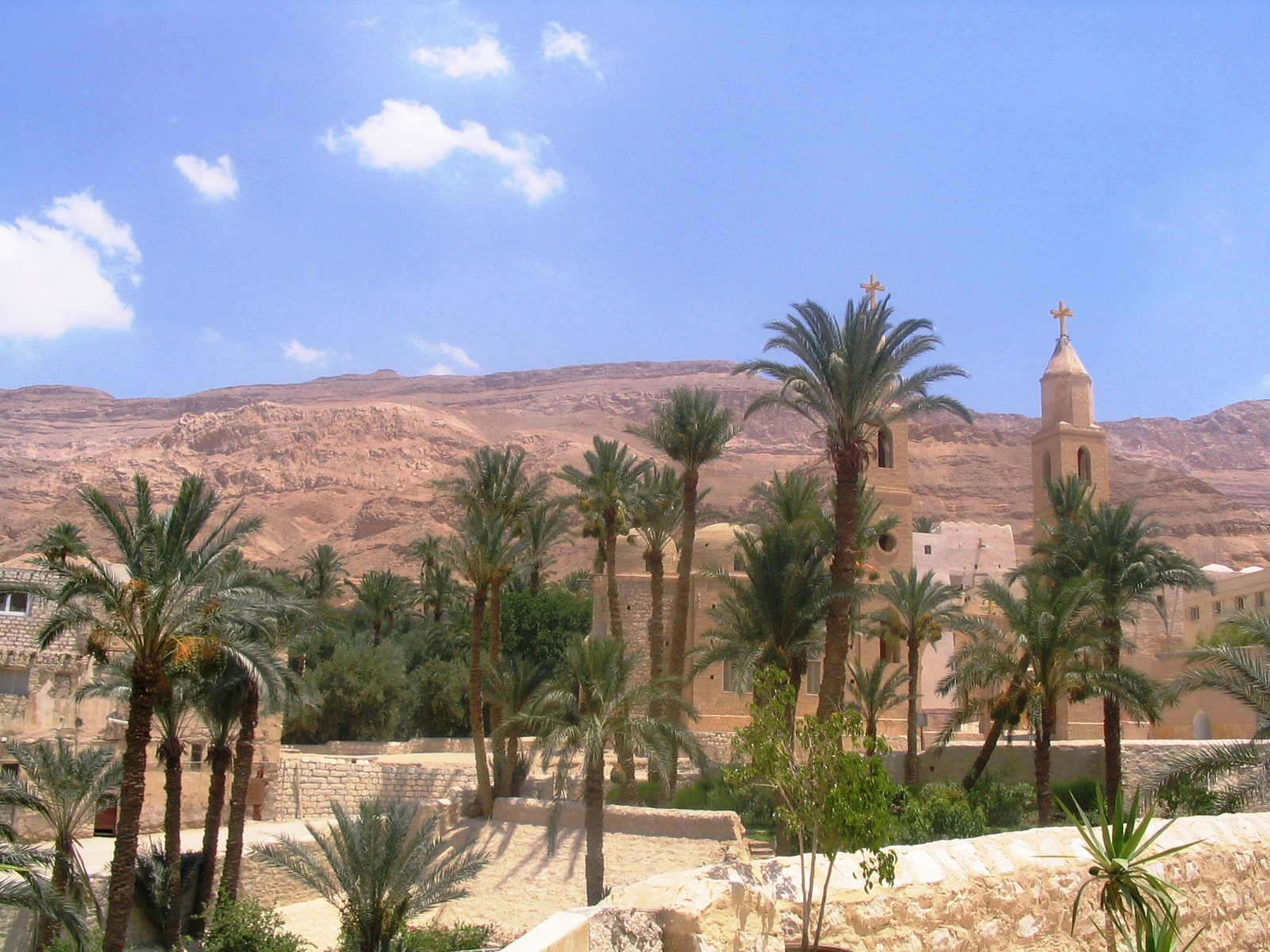 St. Anthony's Egyptian Coptic Monastery at Coma, Egypt. دير_الأنبا_أنطونيوس Monastery of Saint Anthony Monaĥejo de Sankta Antonio Monastère Saint-Antoine Monastero di Sant'Antonio Klooster van Sint Antonius Монастир Святого Антонія Великого